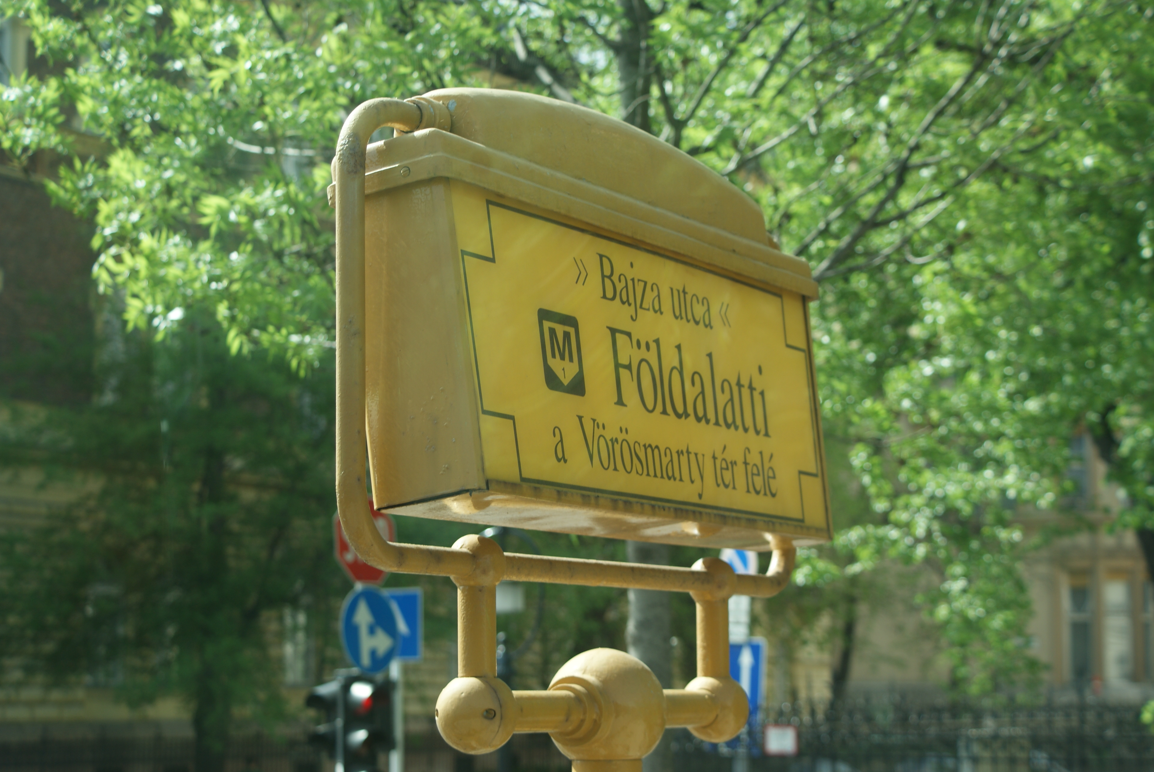 Budapest Metro line 1 plaque